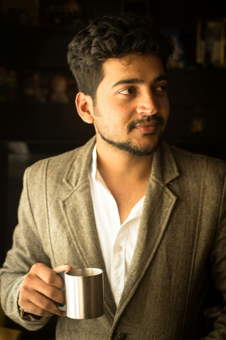 Poornachandra M.C